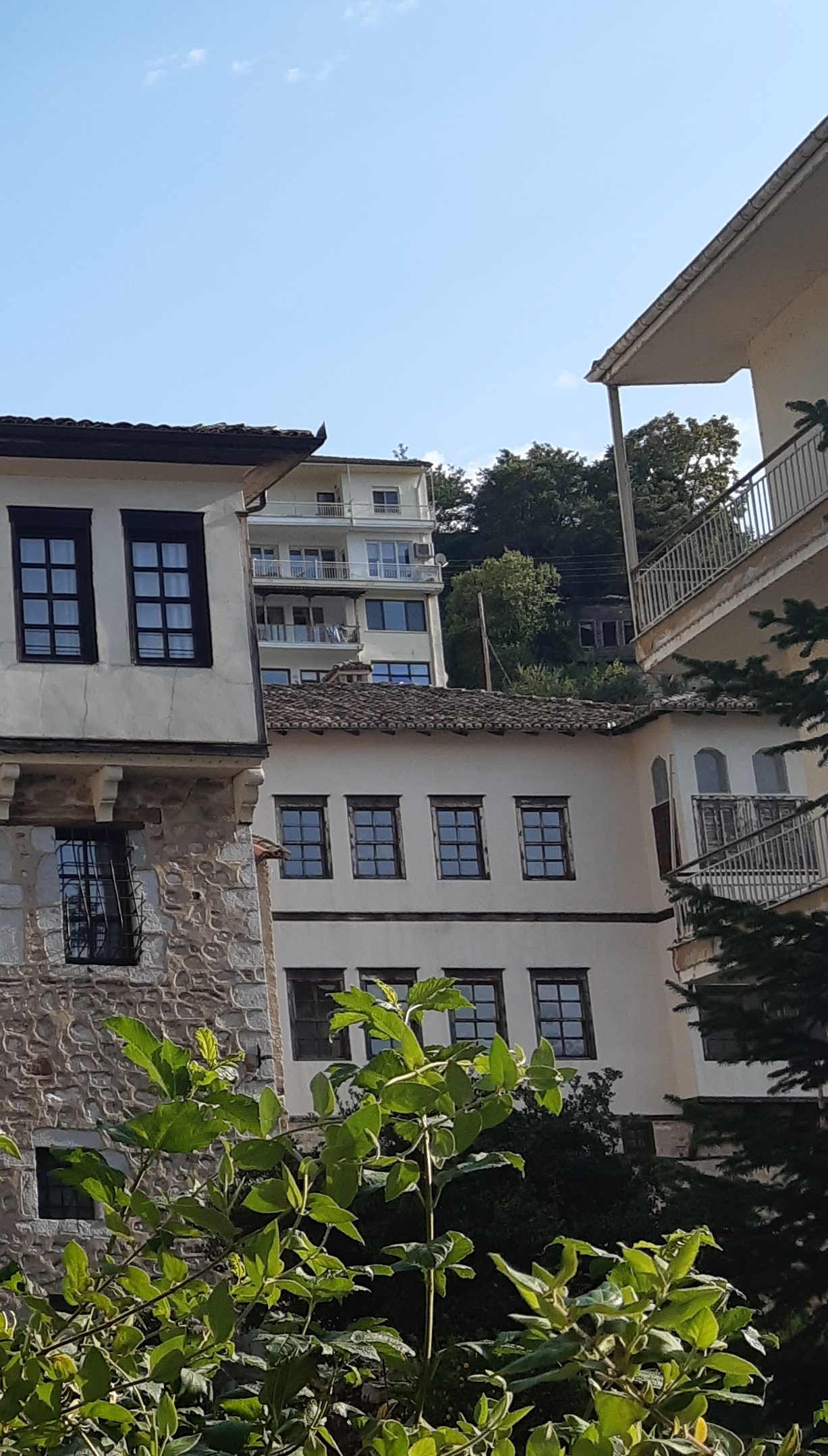 Sapuntzis Mansion